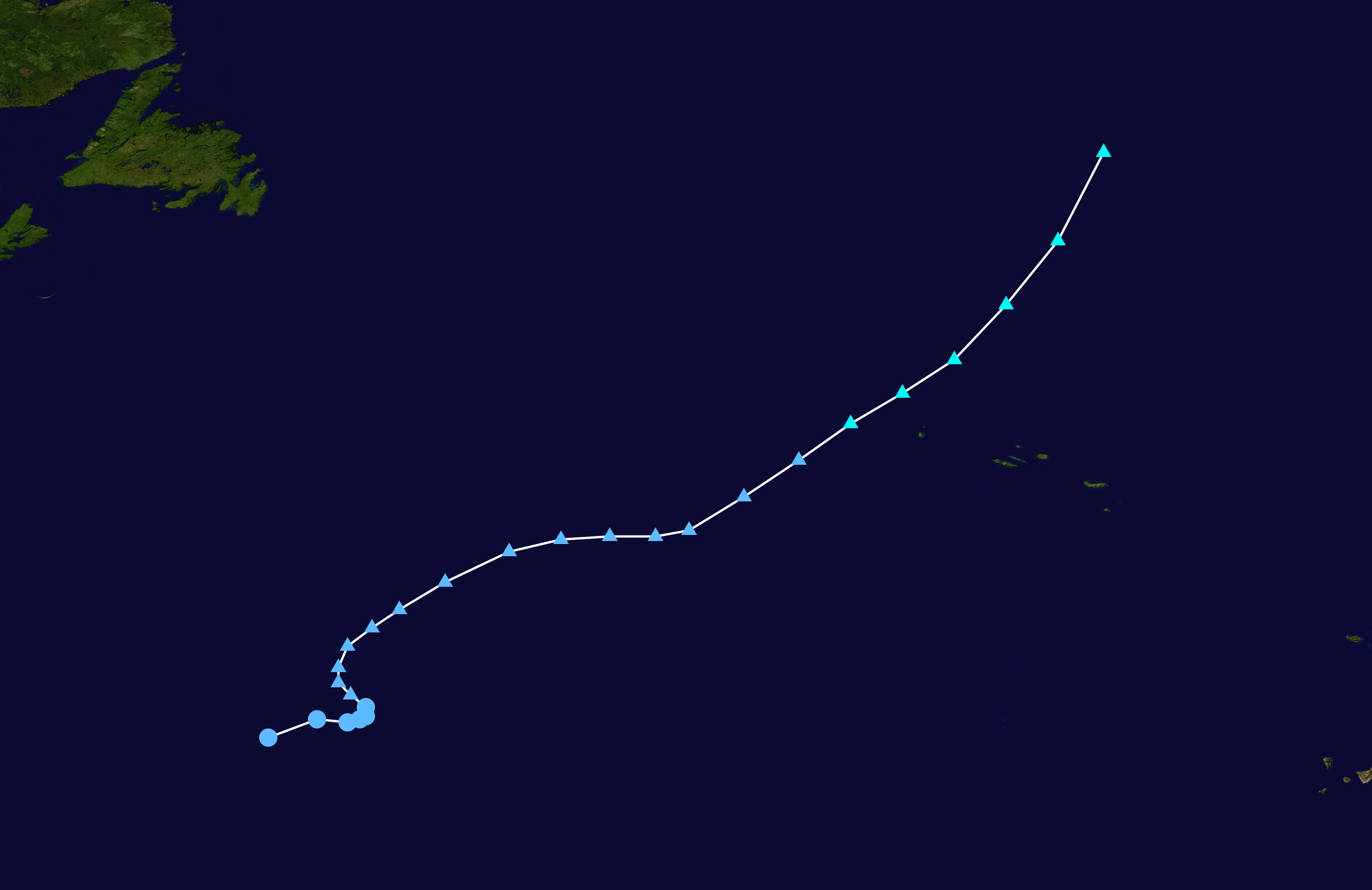 Track map of Tropical Depression Fifteen of the 2007 Atlantic hurricane season. The points show the location of the storm at 6-hour intervals. The colour represents the storm's maximum sustained wind speeds as classified in the Saffir–Simpson scale (see below), and the shape of the data points represent the nature of the storm, according to the legend below. Saffir–Simpson scale Tropical depression≤38 mph≤62 km/h Category 3111–129 mph178–208 km/h Tropical storm39–73 mph63–118 km/h Category 4130–156 mph209–251 km/h Category 174–95 mph119–153 km/h Category 5≥157 mph≥252 km/h Category 296–110 mph154–177 km/h Unknown Storm type Tropical cyclone Subtropical cyclone Extratropical cyclone / Remnant low / Tropical disturbance / Monsoon depression